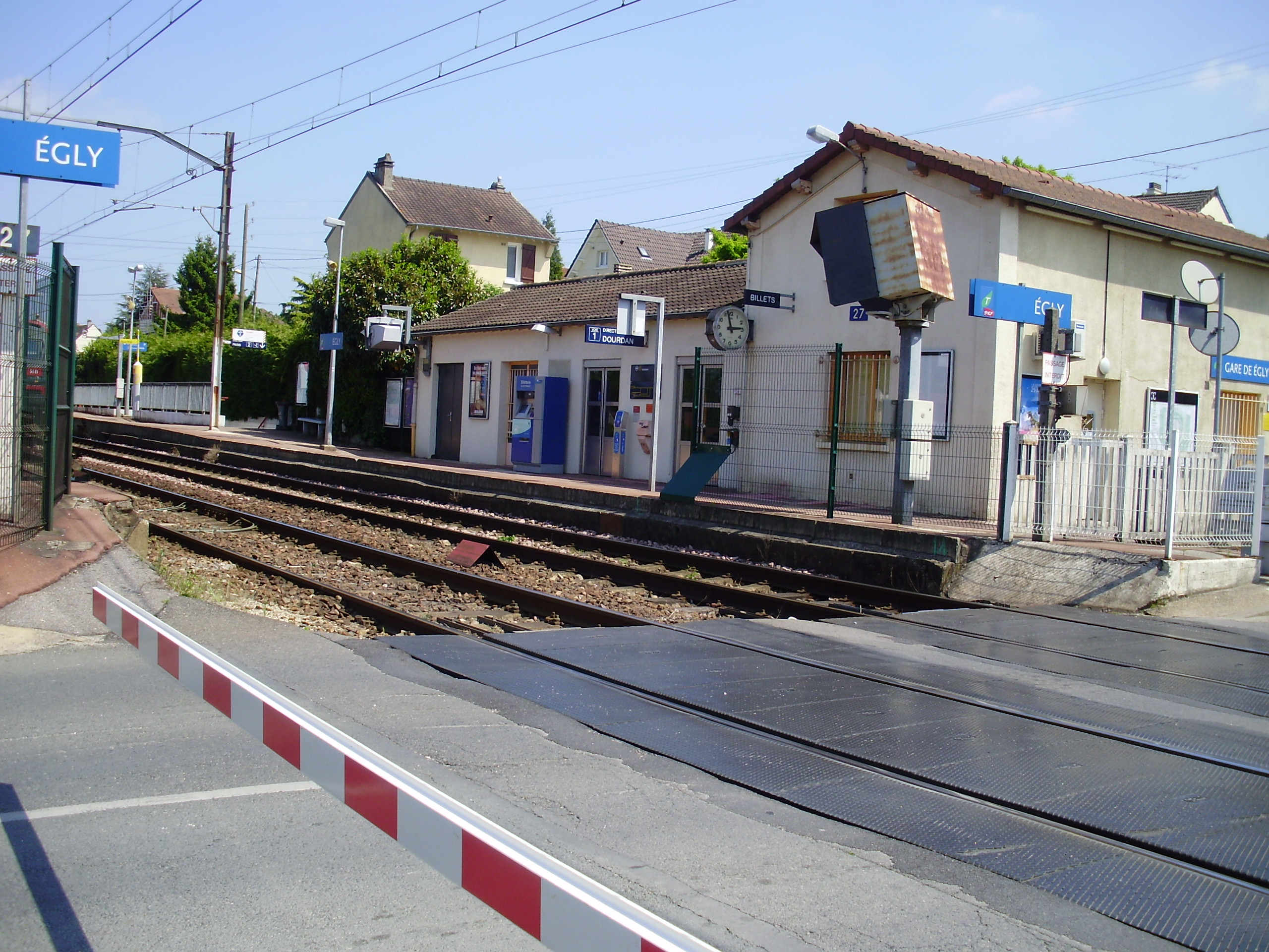 Level crossing of the Égly station, Essonne, France, before arrival of a train